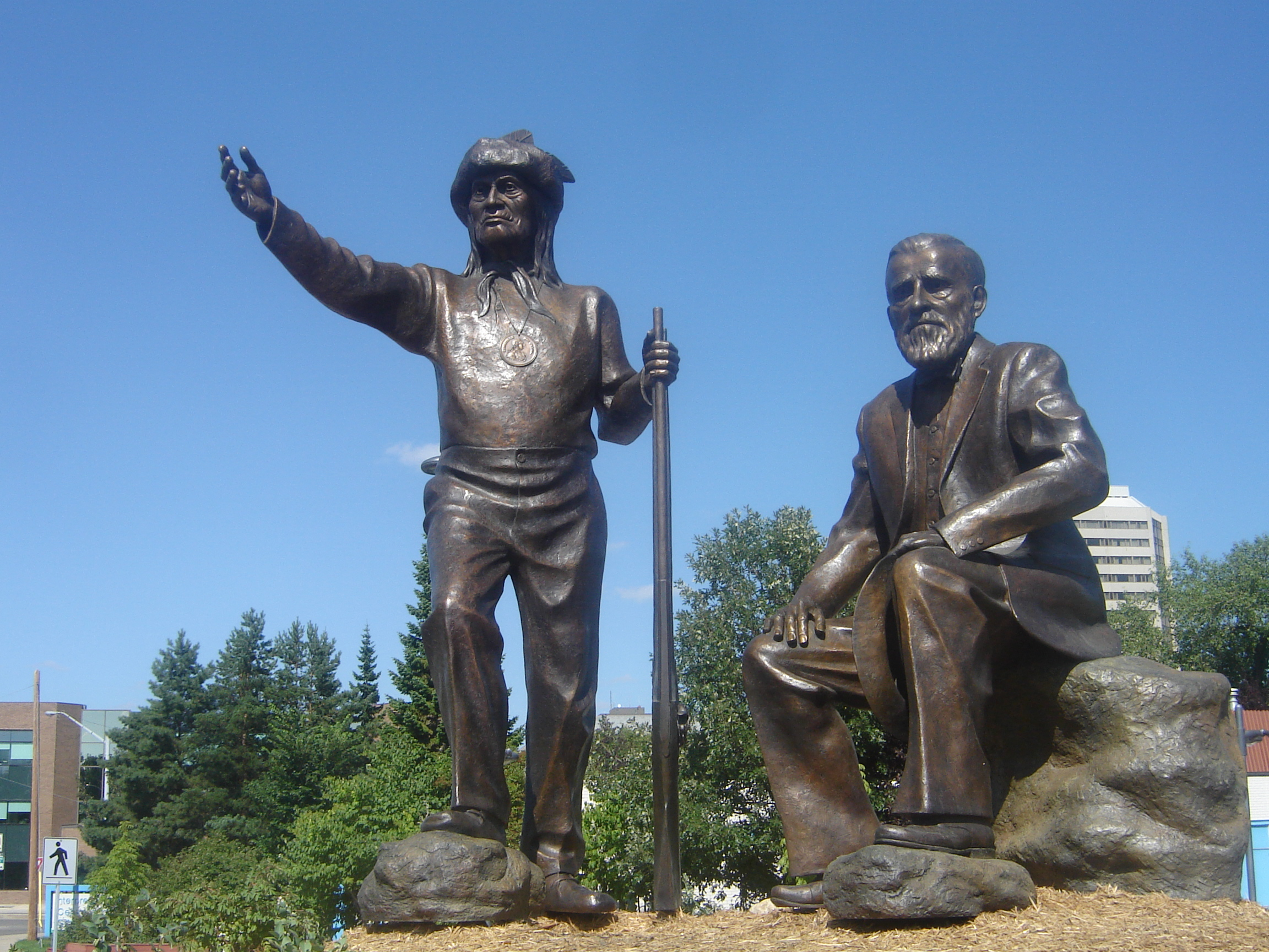 The Founders Statue. Chief Whitecap and John Lake. Statue at the south entrance to the Victora Bridge. Hans Holtkamp. 2008. The City of Saskatoon acknowledges the financial support of the Government of Canada through the Cultural Capital of Canada Program, a Program of the Department of Canadian Heritage. River Landing Central Business District, Saskatoon, Saskatchewan, Core Neighbourhoods SDA, Saskatoon